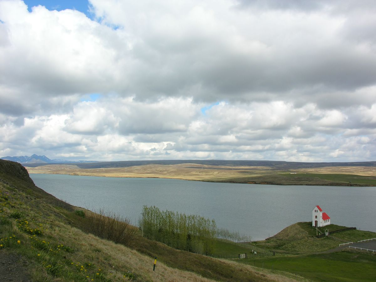 church and lake of Úlfljótsvatn, Iceland